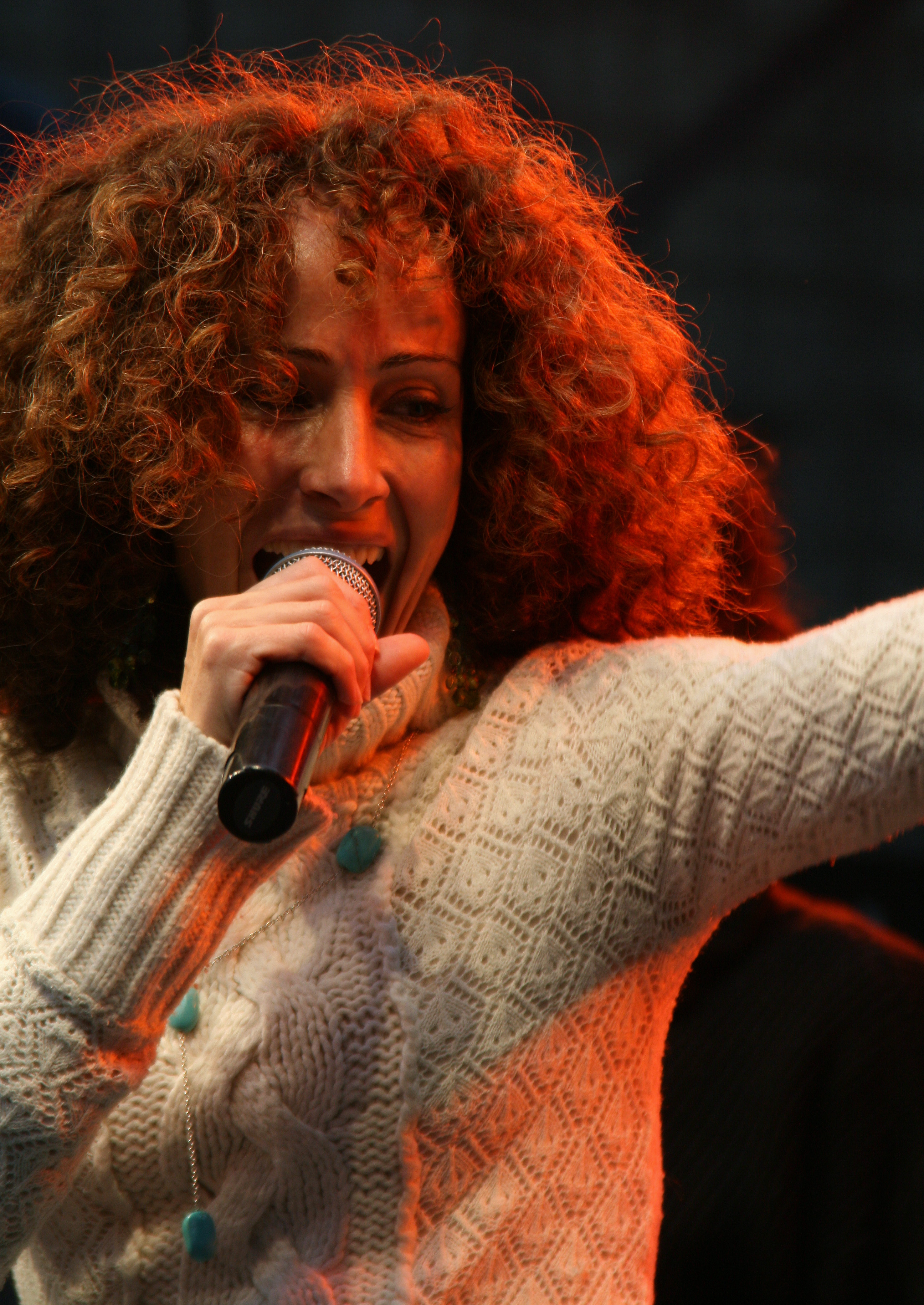 Singer Sandra Pires; concert at the Minoritenplatz in Vienna